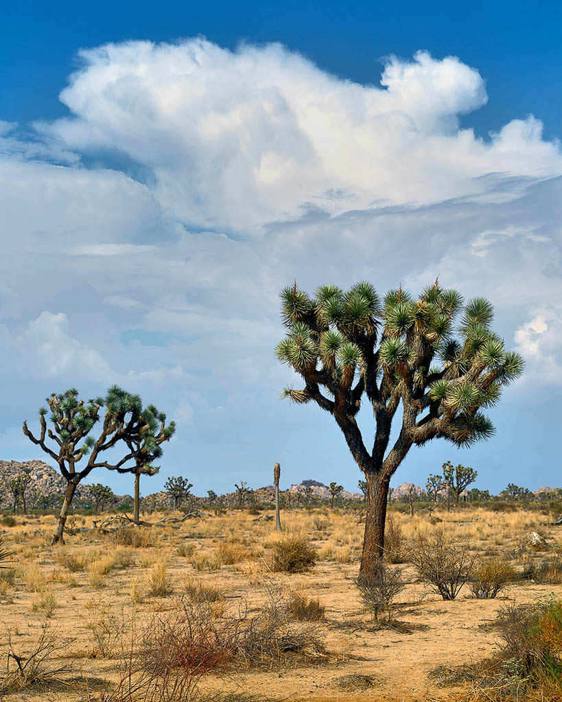 Photographed by Doug Dolde More images from this location at